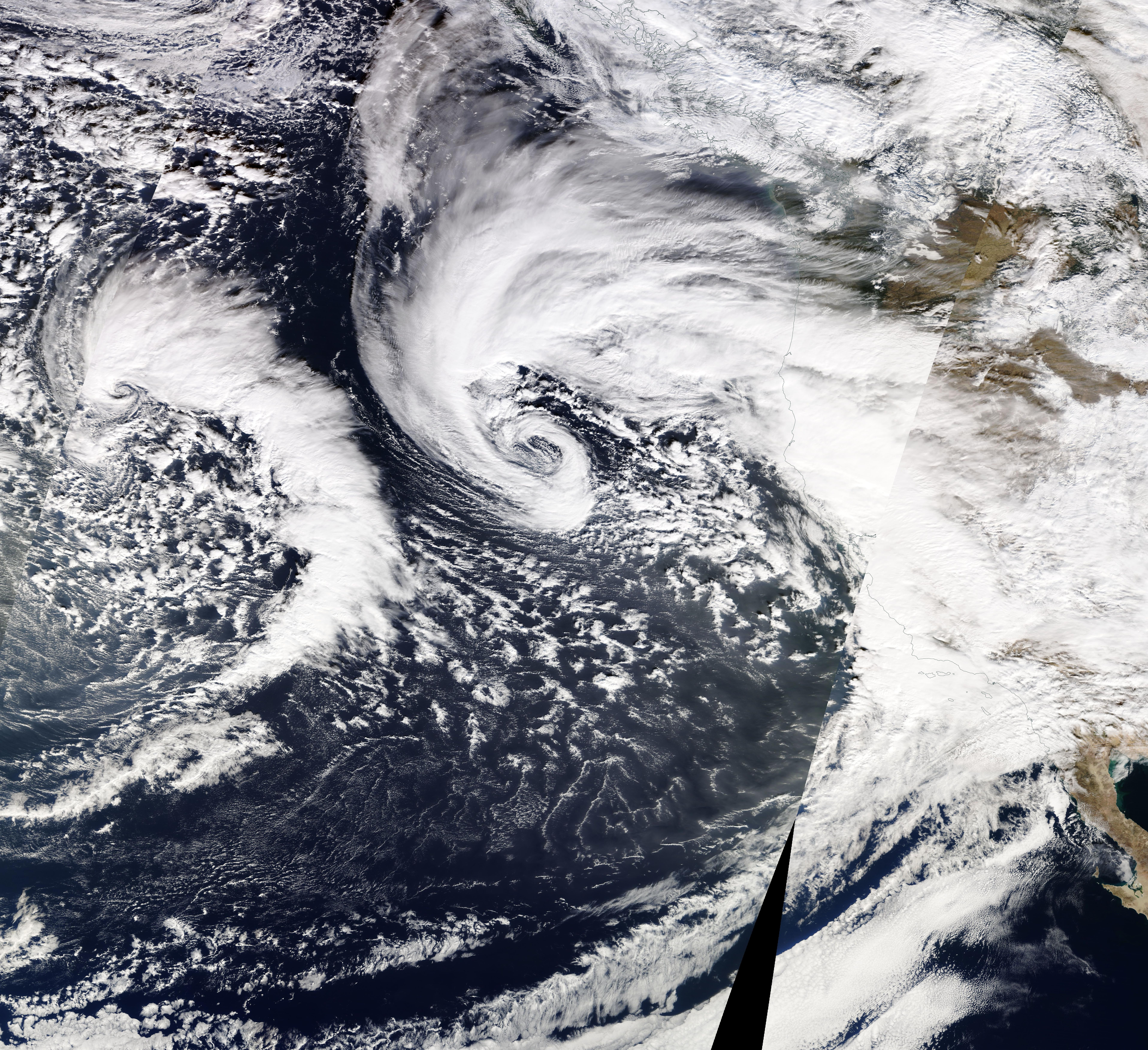 Satellite image of the unusually-powerful third January 2010 North American winter storm (the second one to affect California), near its peak intensity on January 18. This storm was the strongest of the group, and spawned multiple tornadoes and waterspouts across California.